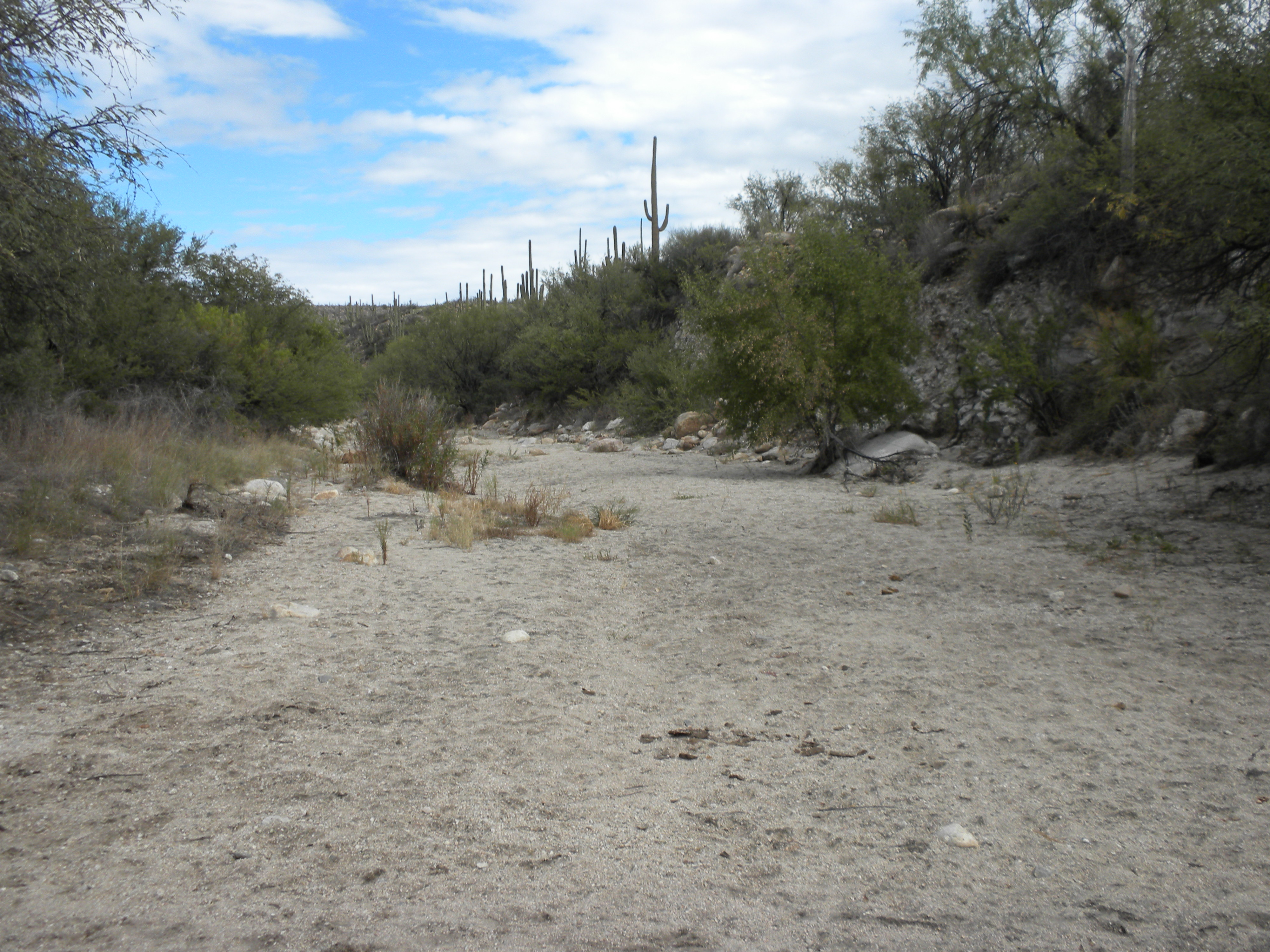 Dried stream bed at Santa Catalina Mountains in Tucson, Arizona